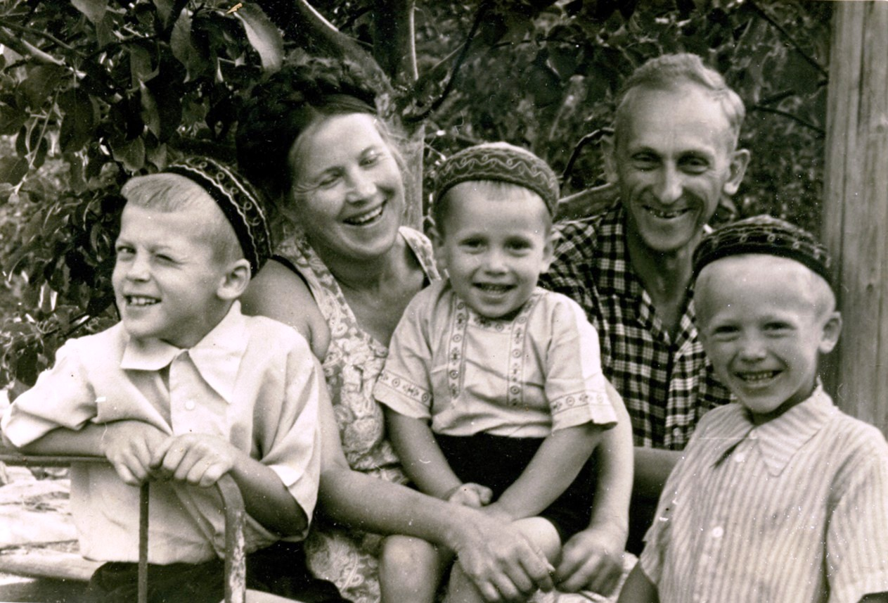 Kurkin S.A.